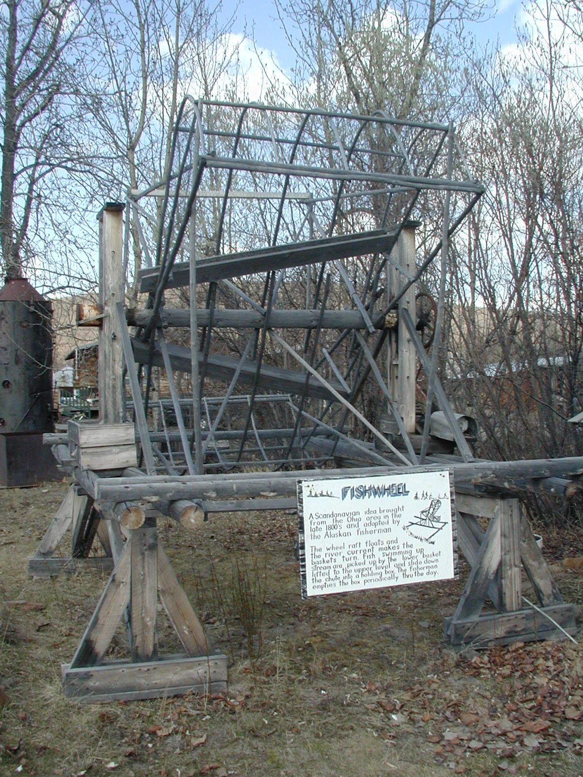 Fishwell at Nenana, Alaska.